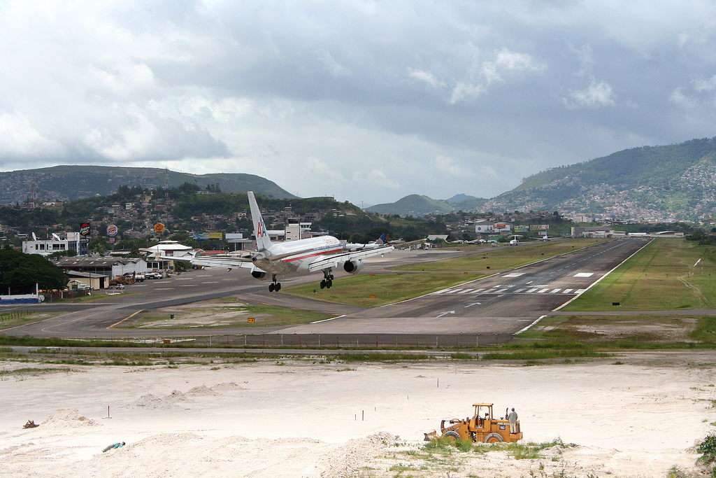 American Airlines Boeing 757 Landing At Toncontin